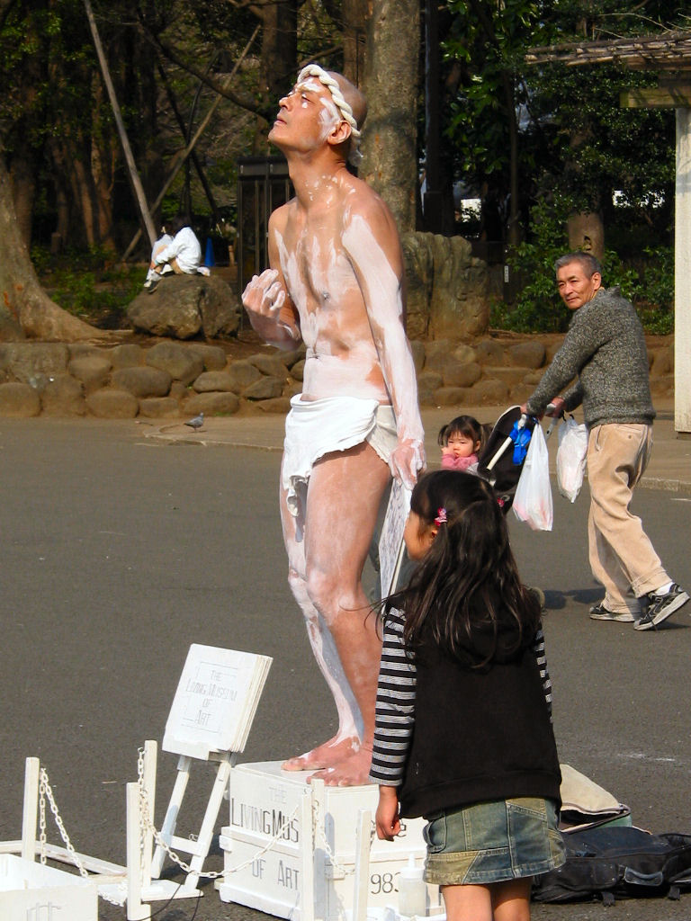 Performance of an artist in Tokyo.